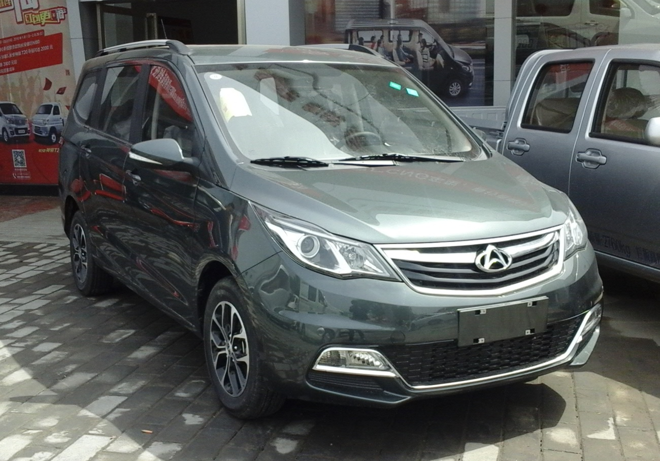 Chana Oushang photographed in Xi'an, Shaanxi province, China.